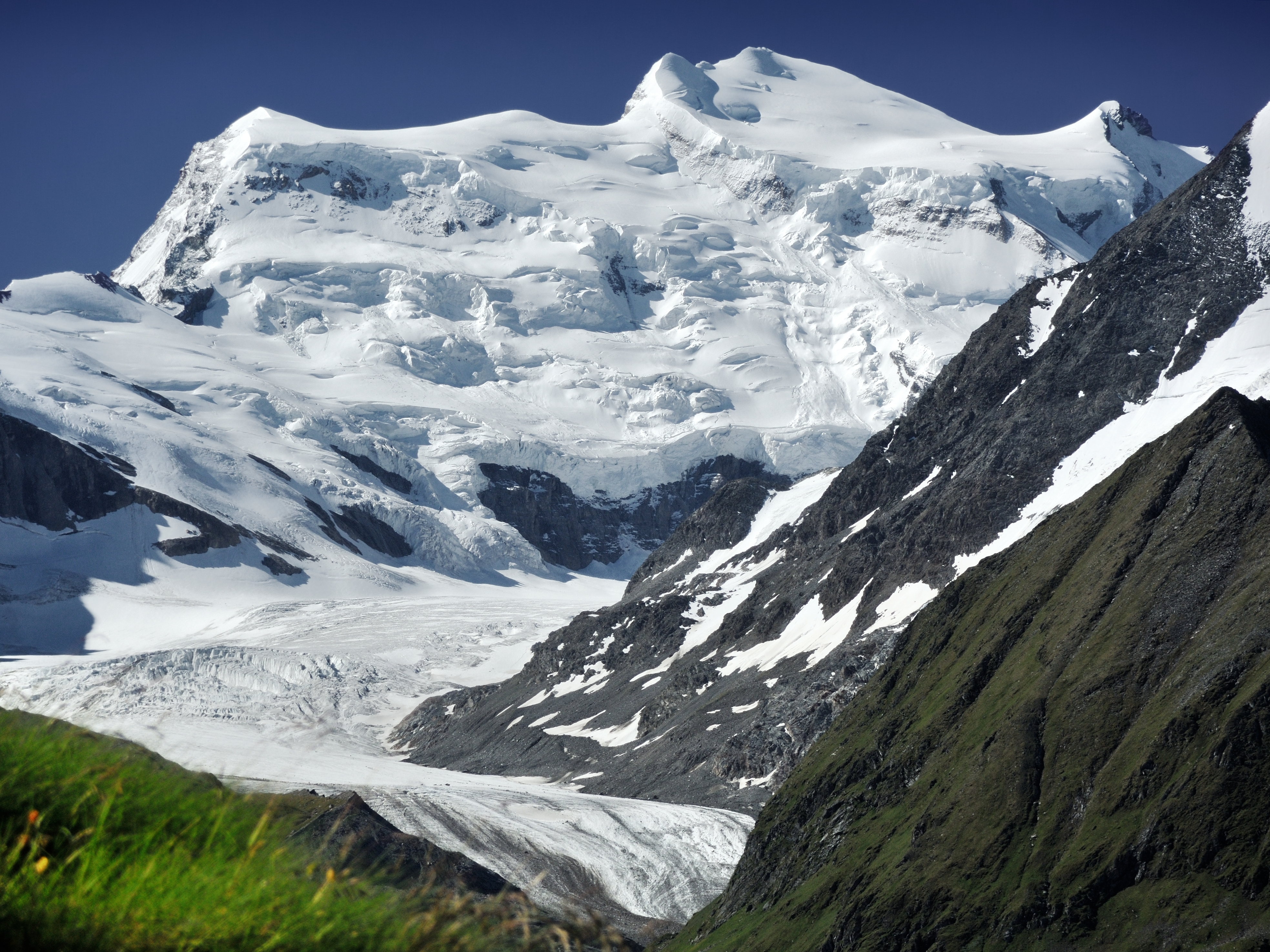 The north side of the Grand Combin (view from near La Chaux)